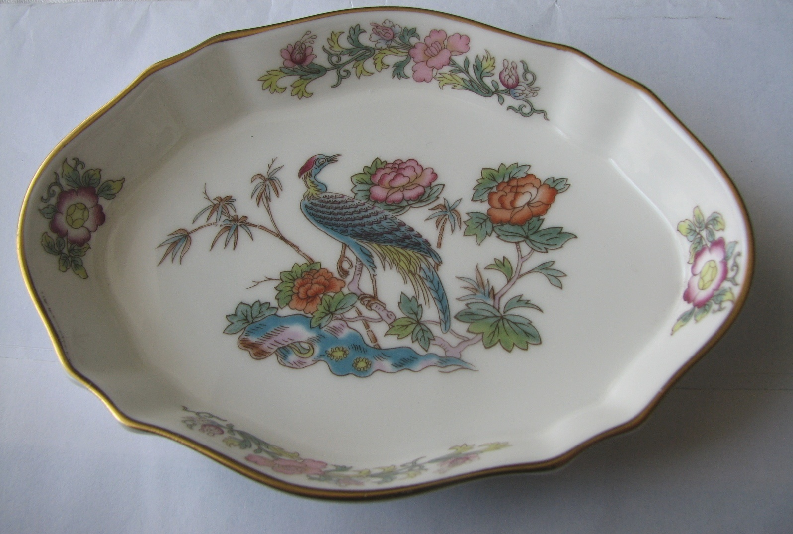 Wedgwood pottery